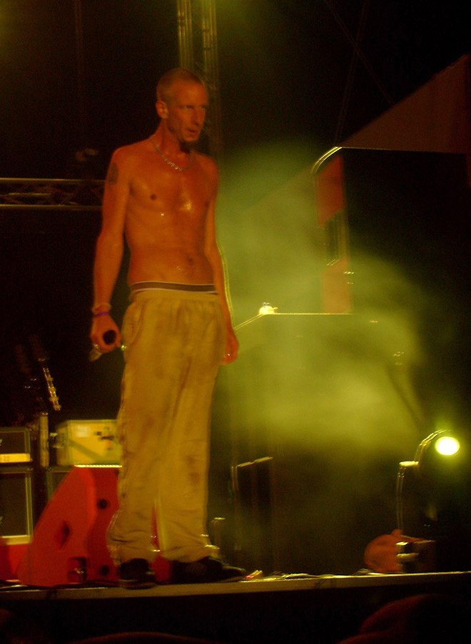 Zak Tell of Clawfinger performing at Spirit of Burgas on 16 August 2009, Burgas, Bulgaria